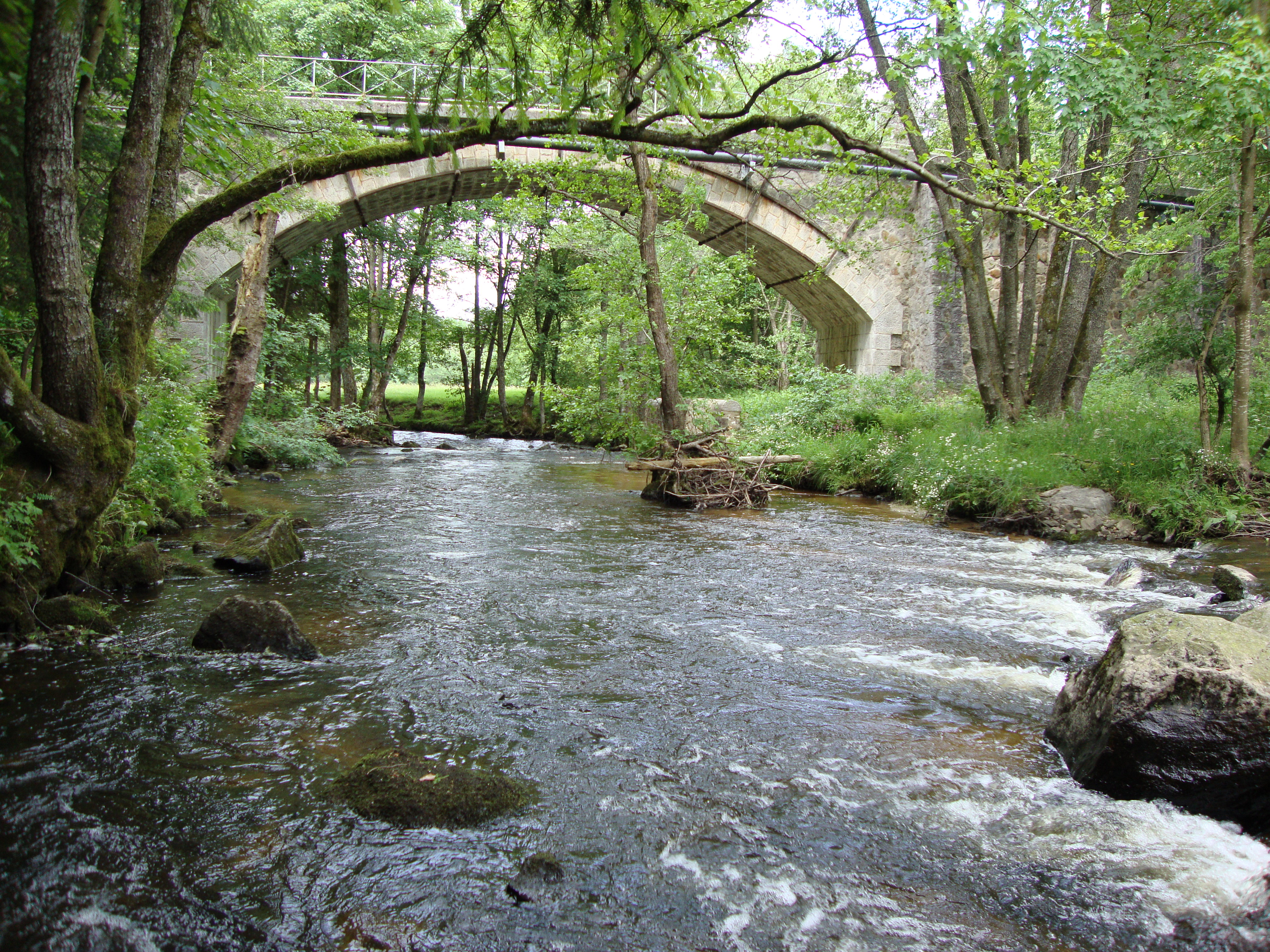 St.Victor-Malescours (Haute-Loire, Fr) bidge over the Semène